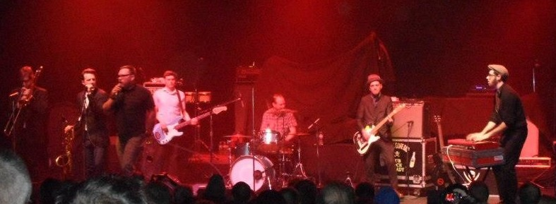 Performing at the Vic Theater in Chicago on March 11, 2013 - opening for The Specials